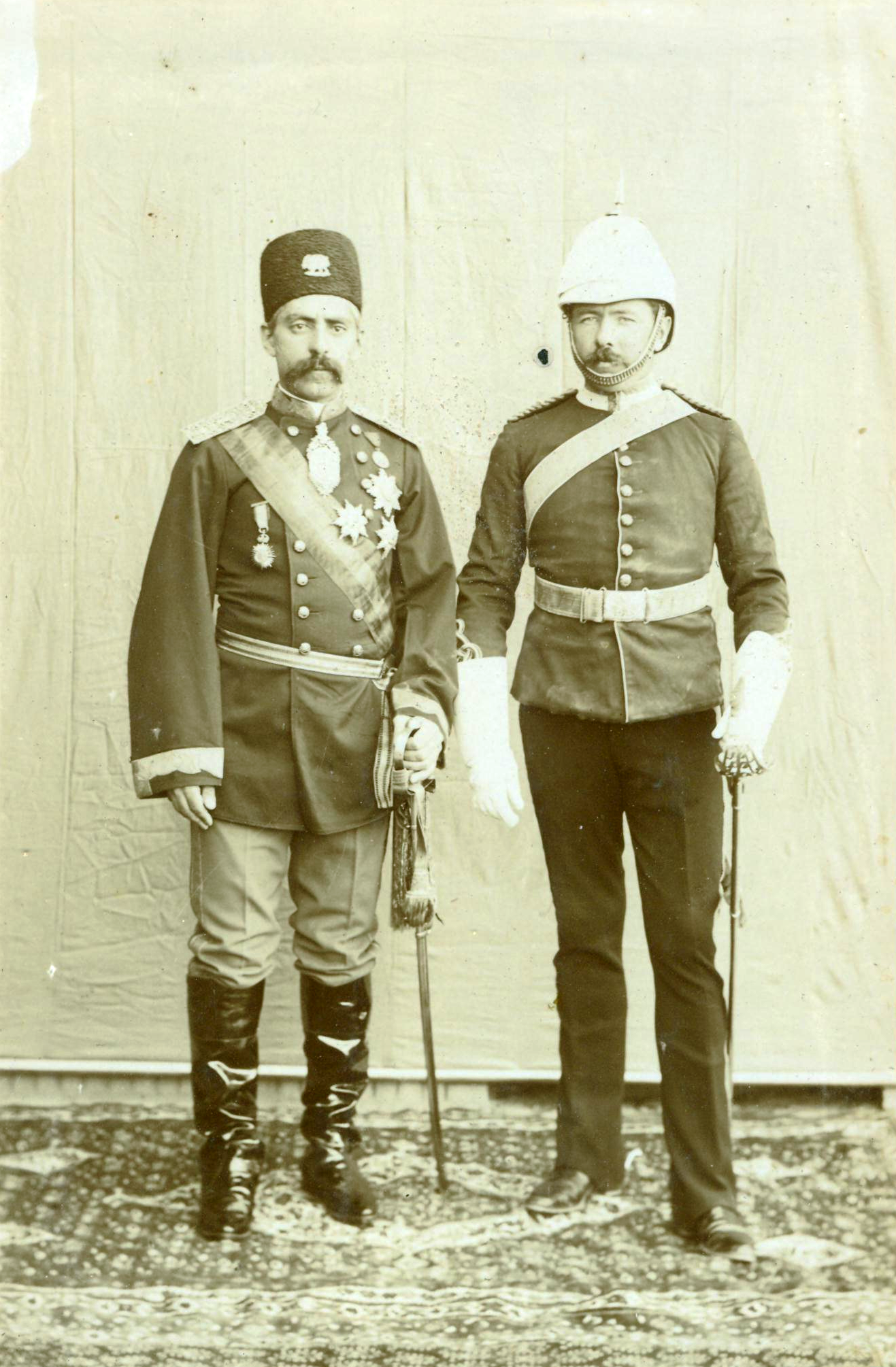 Sir Percy Sykes next to Abdol-Hossein Farmanfarma in Kerman, Iran. c. 1902